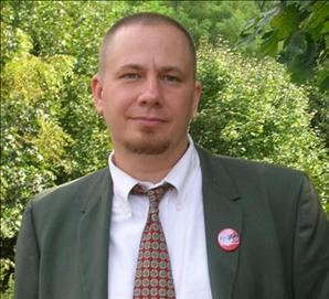 Greg Pason, National Secretary of the Socialist Party USA